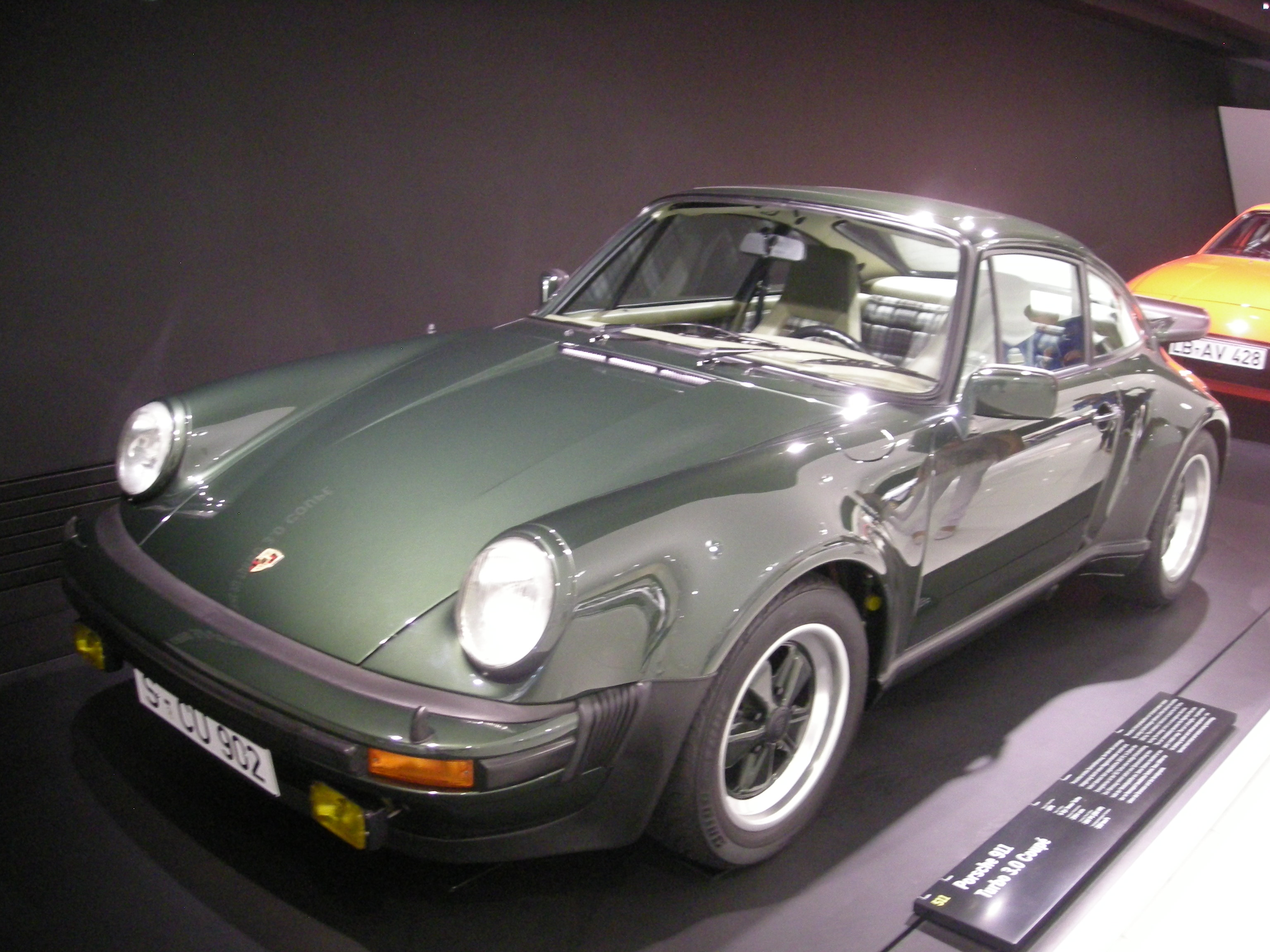 A 1976 Porsche 911 Turbo 3.0 Coupe inside the Porsche Museum in Stuttgart, Baden-Württemberg (Germany).